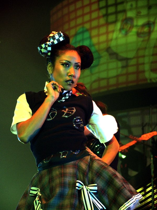 Maya Chino (stage name "Love") during a performance of "Harajuku Girls" in Duluth, Georgia, United Stateswicked hair